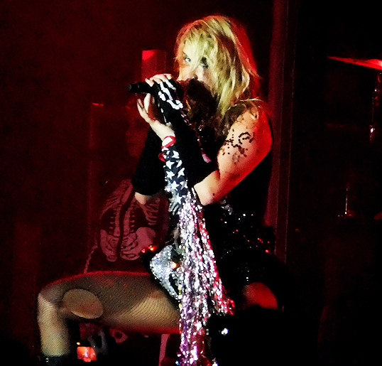 Kesha performing at Kool Haus in Toronto, Ontario.